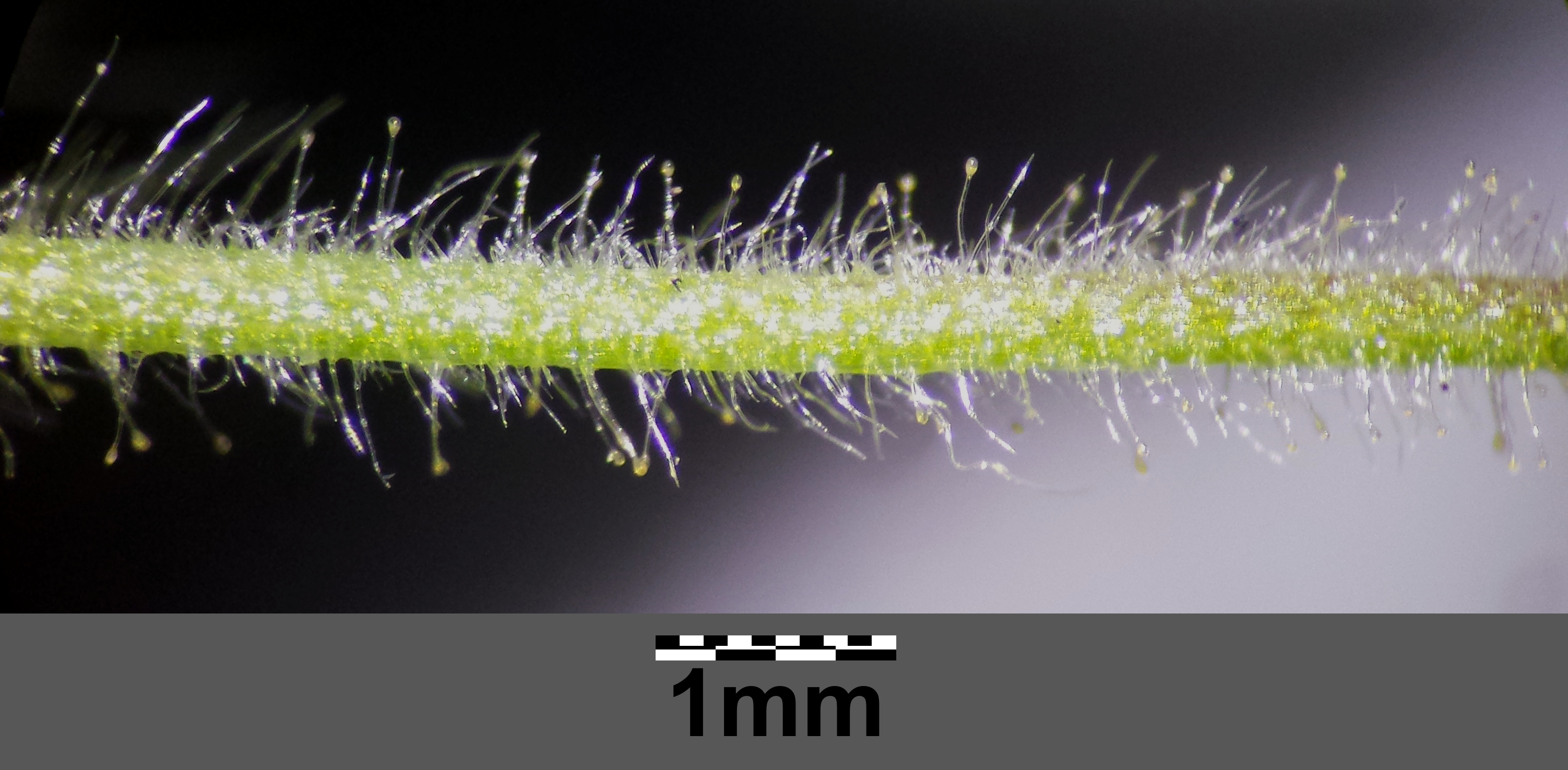 Pedicel Taxonym: Cerastium brachypetalum s. str. ss Fischer et al. EfÖLS 2008 ISBN 978-3-85474-187-9 Location: Neue Donau, Vienna-Floridsdorf - ca. 160 m a.s.l. Habitat: stony, dry area